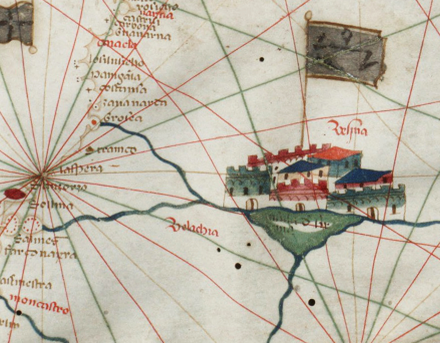 The port of Vicina in Northern Dobrudja as shown on an anonymous portulan of Petrus Roselli